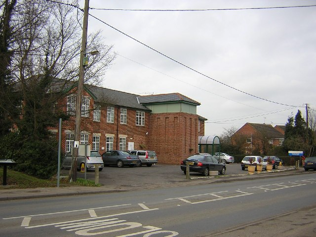 The War Memorial Hospital. It was hard to choose a category for this one. No war memorial as such because the hospital was erected as such after the First World War